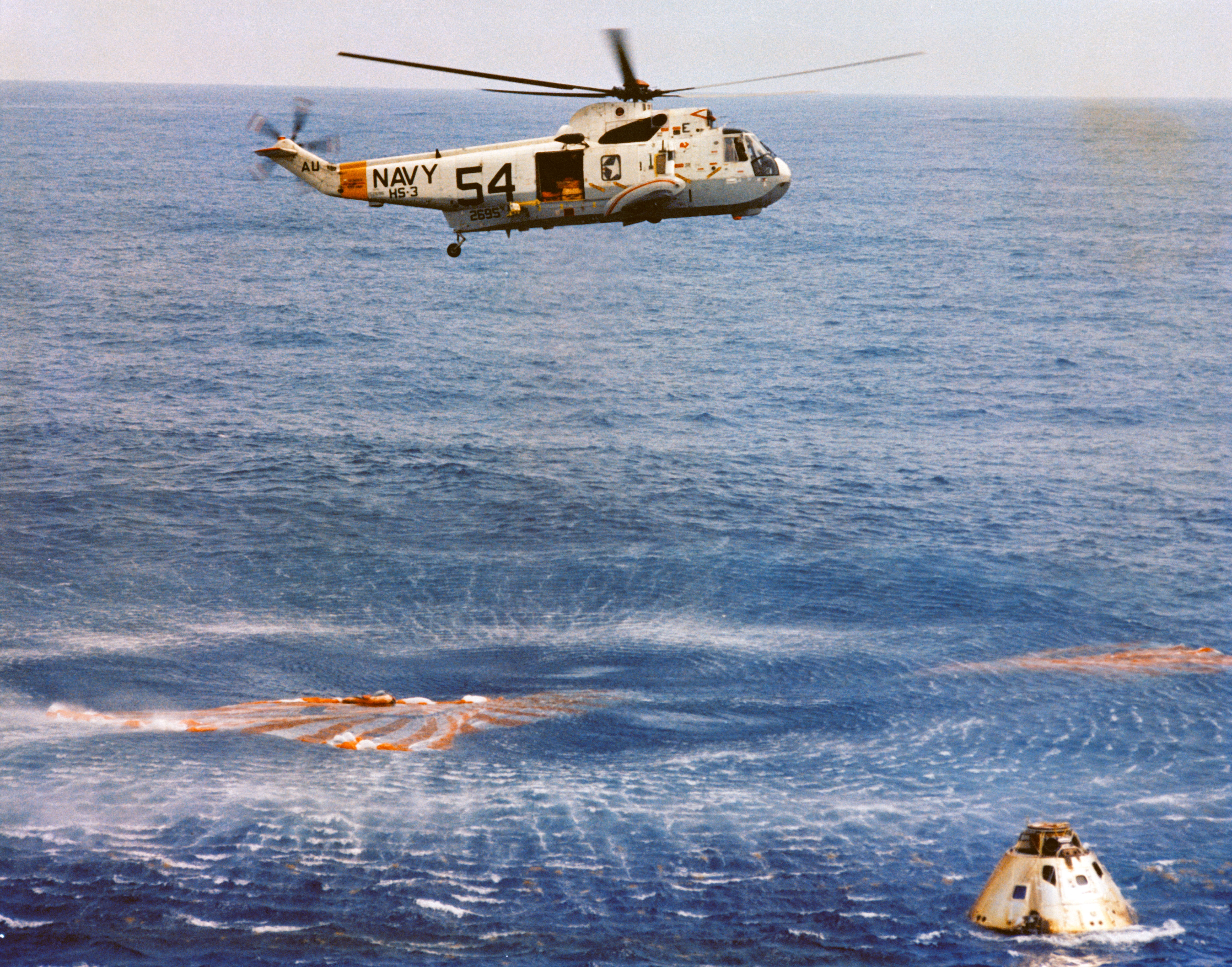 S69-27919 (13 March 1969) --- Immediately after splashdown a recovery helicopter from the USS Guadalcanal hovers over the Apollo 9 spacecraft. Still inside the Command Module (CM) are astronauts James A. McDivitt, David R. Scott, and Russell L. Schweickart. Splashdown occurred at 12:00:53 p.m. (EST), March 13, 1969, only 4.5 nautical miles from the USS Guadalcanal, the prime recovery ship, to conclude a successful 10-day Earth-orbital mission in space.